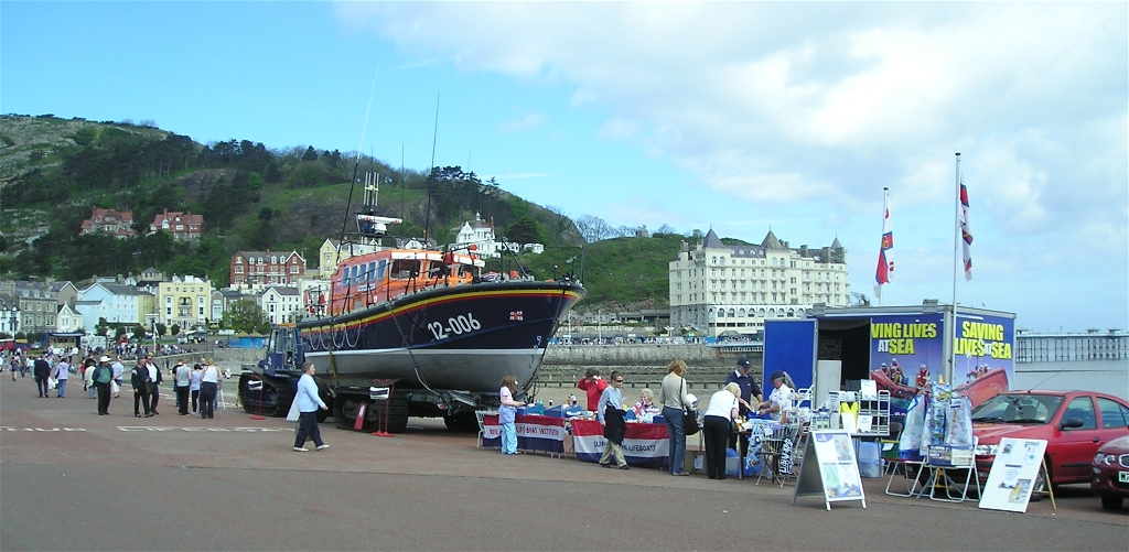 12-006 "RNLB Andy Pearce"